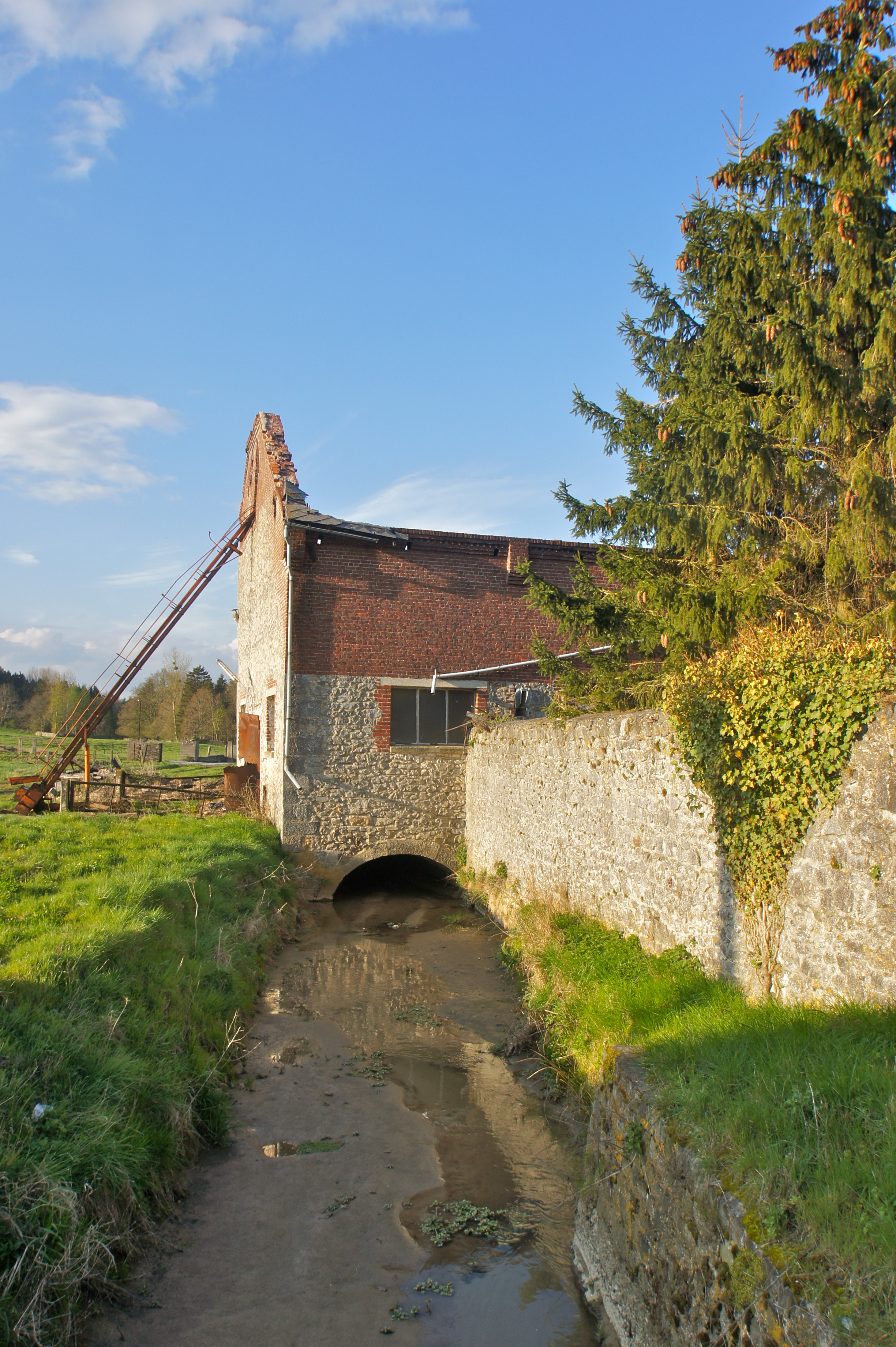 Merbes-le-Château (Fontaine-Valmont), Belgium: The Ruisseau de la Fontaine Claus passes under an abatial farm